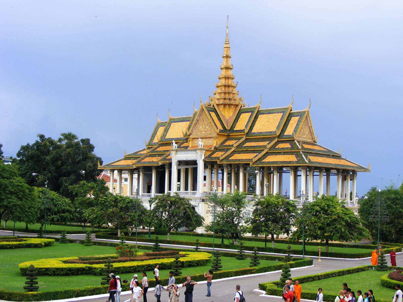 Royal Palace complex, Phnom Penh